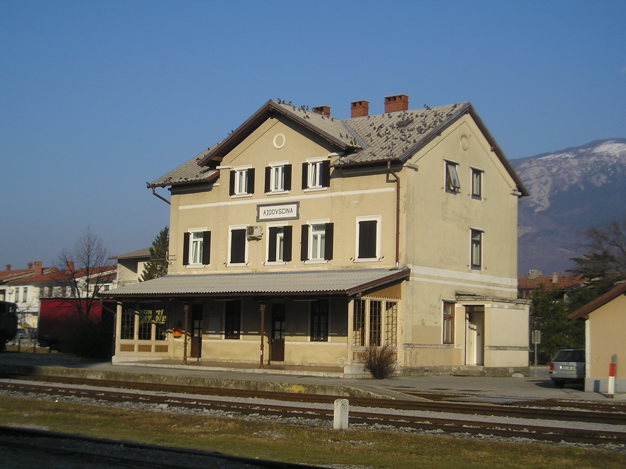 Train station in Ajdovščina, Slovenia